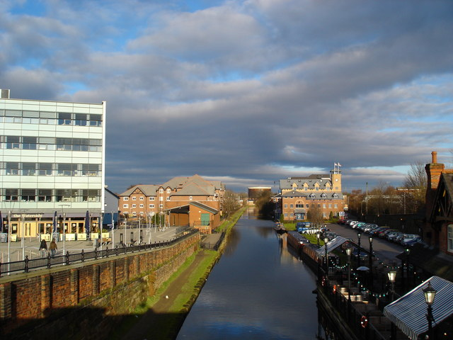 Sale, Bridgewater canal Towards Manchester.